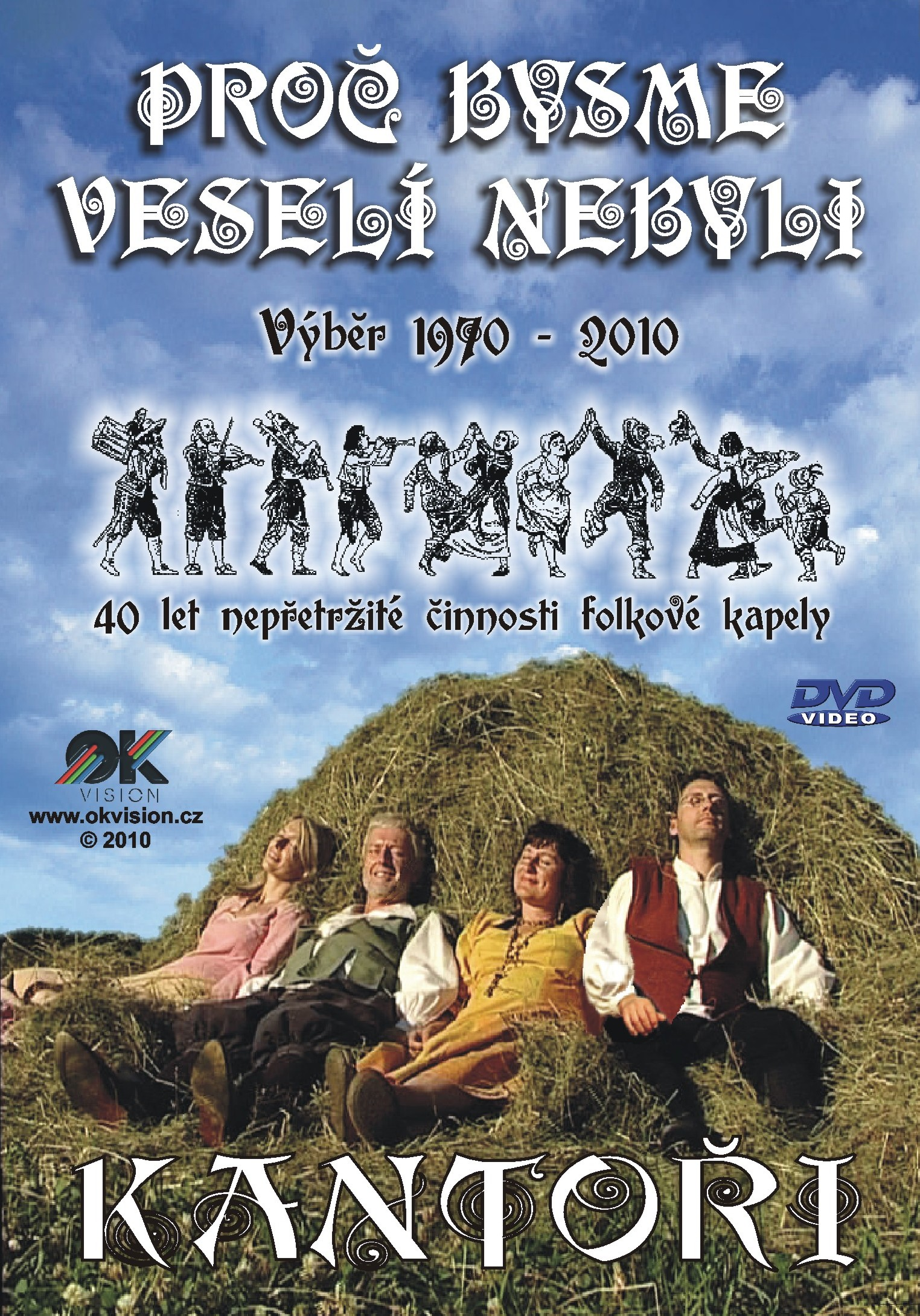 Cover sample DVD that Czech folk group KANTOŘI released on his 40th birthday.